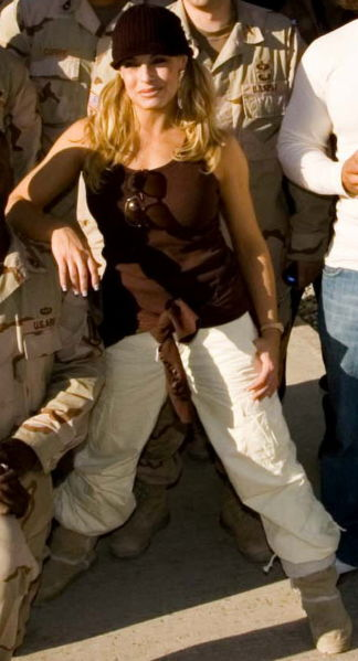 Former WWE Diva Trish Stratus in Afghanistan, 2005